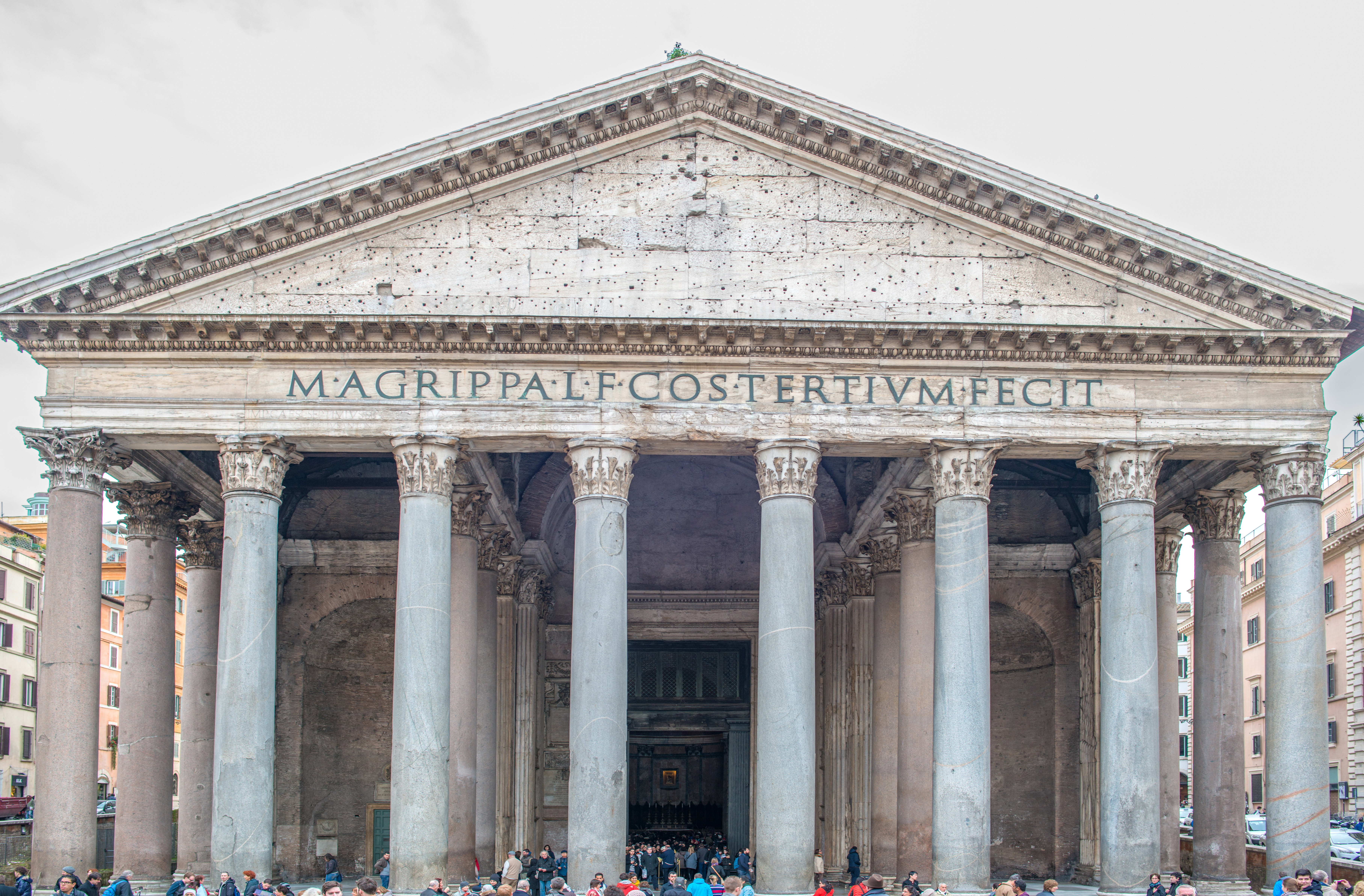 Piazza Pantheon Rome Italy February 2013 The inscriptions, the first from the original rebuilding in 126 AD and the second from a restoration in 202 AD, read: M·AGRIPPA·L·F·COS·TERTIVM·FECIT (M[arcus] Agrippa L[ucii] f[ilius] co[n] s[ul] tertium fecit) Marcus Agrippa, son of Lucius, built this when consul for the third time. IMP·CAES·L·SEPTIMIVS·SEVERVS·PIVS·PERTINAX·ARABICVS·ADIABENICVS·PARTHICVS·MAXIMVS·PONTIF·MAX·TRIB·POTEST·X·IMP·XI·COS·III·P·P·PROCOS ET IMP·CAES·M·AVRELIVS·ANTONINVS·PIVS·FELIX·AVG·TRIB·POTEST·V·COS·PROCOS — PANTHEVM·VETVSTATE·CORRVPTVM·CVM·OMNI·CVLTV·RESTITVERVNT Emperor Caesar Lucius Septimius Severus Pius Pertinax, victorious in Arabia, victor of Adiabene, the great victor in Parthia, Pontifex Maximus, 10 times tribune, 11 times emperor, three times consul, Pater Patriae, proconsul, and Emperor Caesar Marcus Aurelius Antoninus Pius Felix Augustus, five times tribune, consul, proconsul, have carefully restored the Pantheon ruined by age.